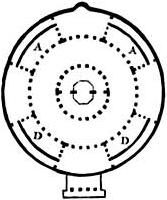 Santo Stefano Rotondo, Rome, plan.